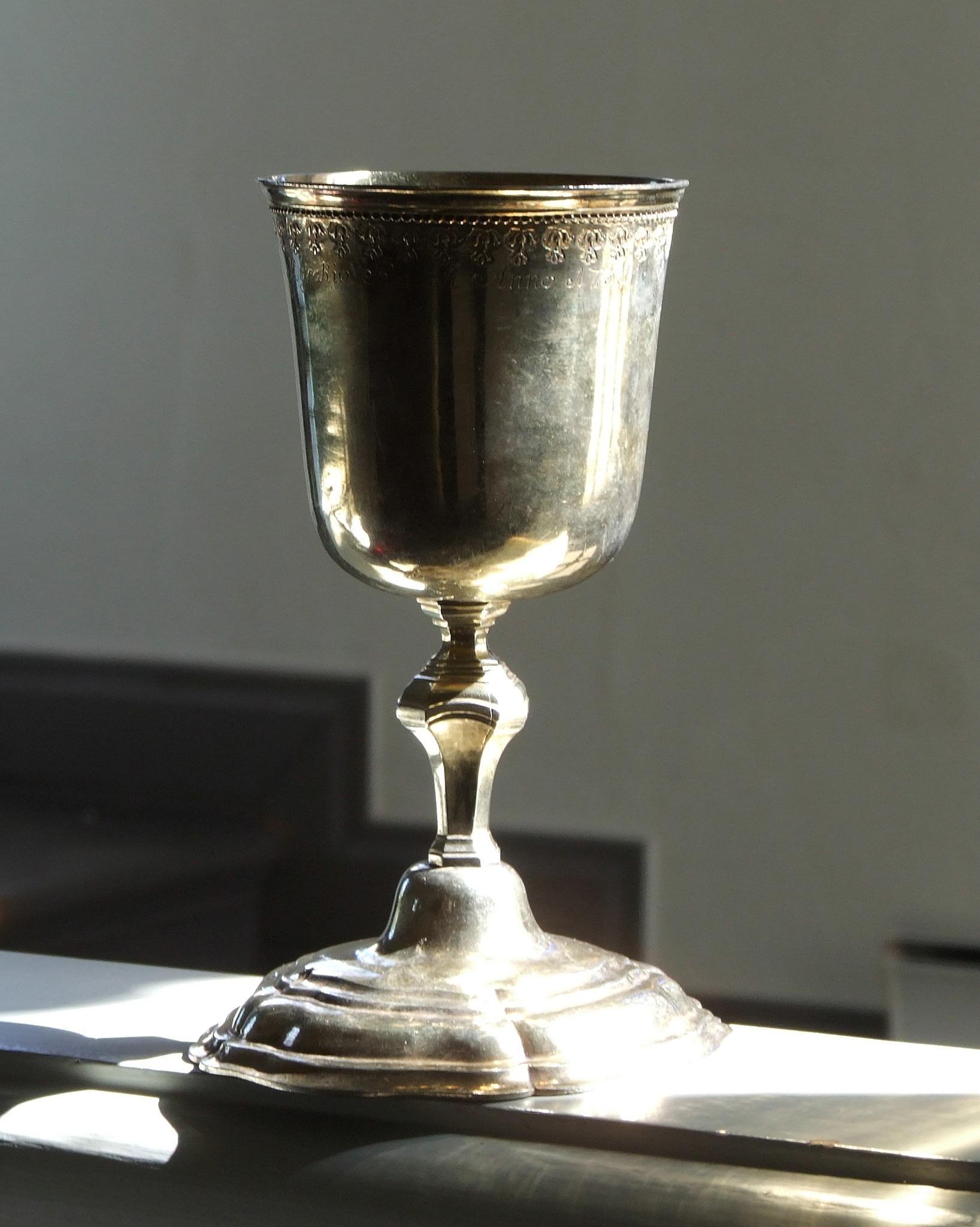 The communion cup of the church of Lumijoki was made in Oulu in 1751, looted in 1783 and found by Finnish soldiers in the tribal war in the East Karelia in 1918.